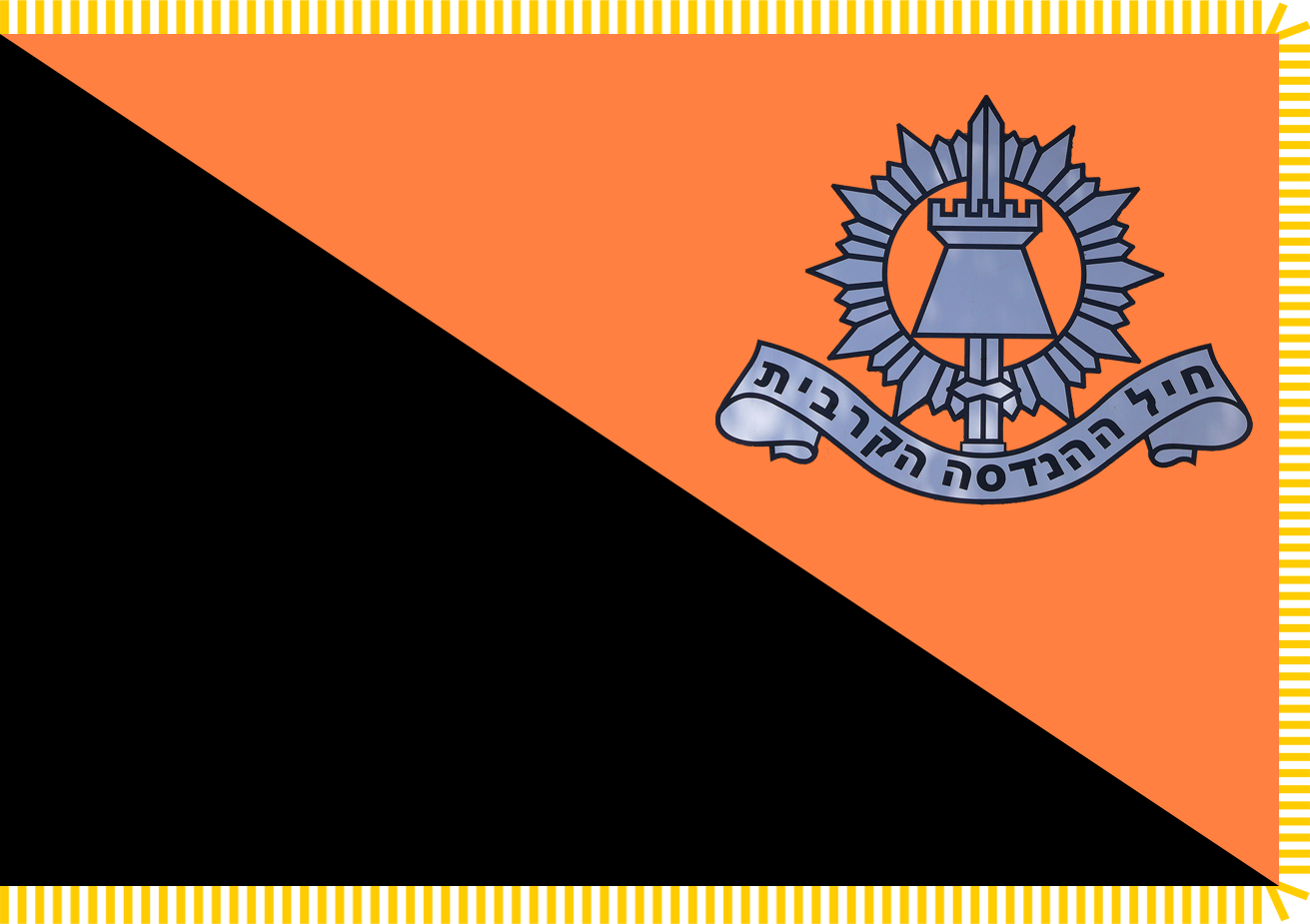 IDF Combat Engineering Corps banner